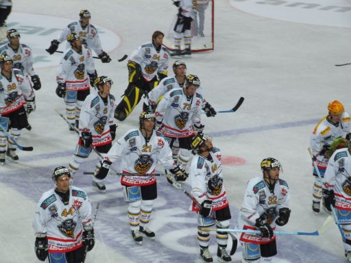 Players of HC Lugano, Nationalliga A, Rapperswil, Switzerland